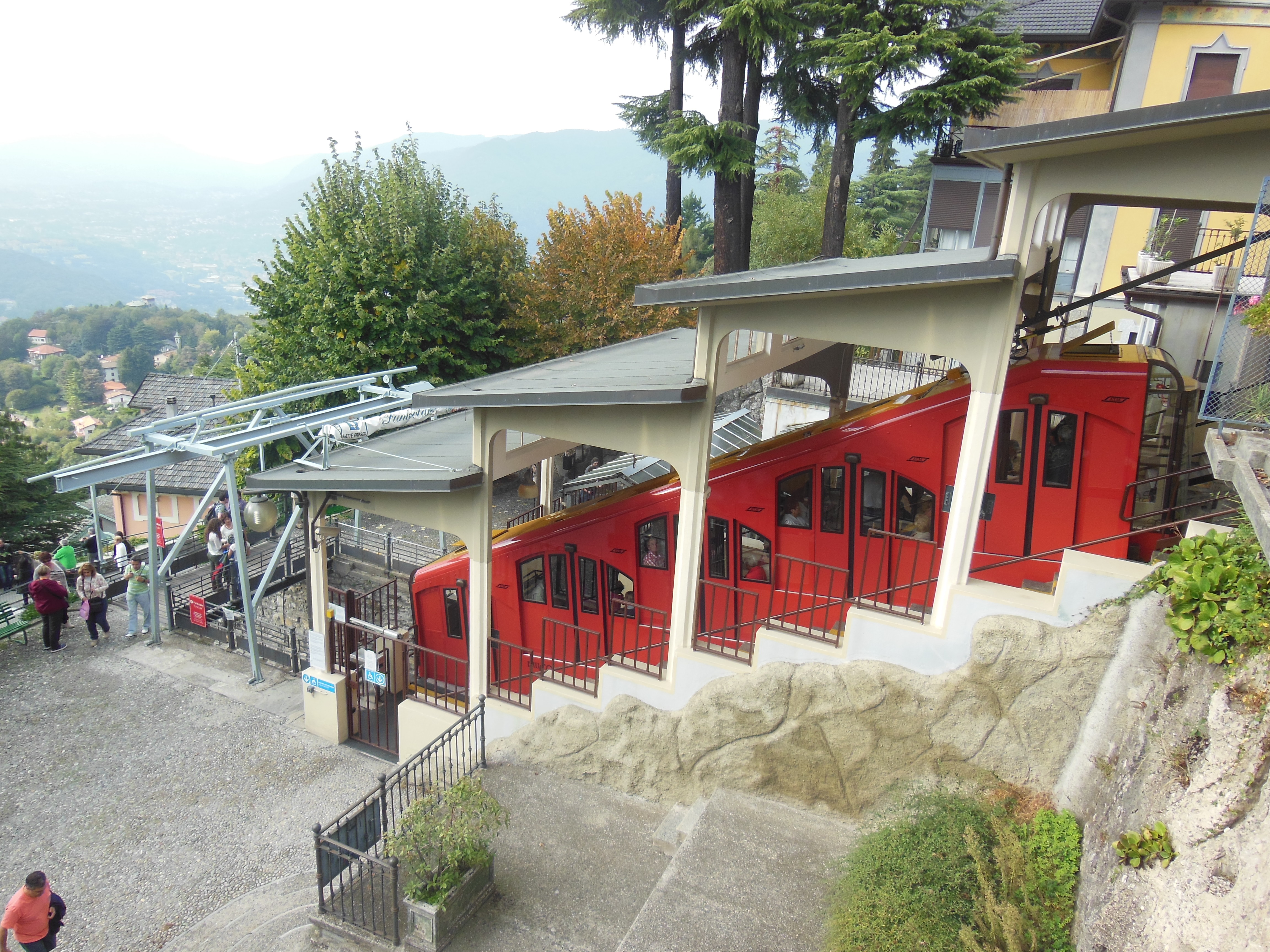 A car in the upper station of the Como–Brunate funicular. For more information, see the wikipedia article Como–Brunate funicular.